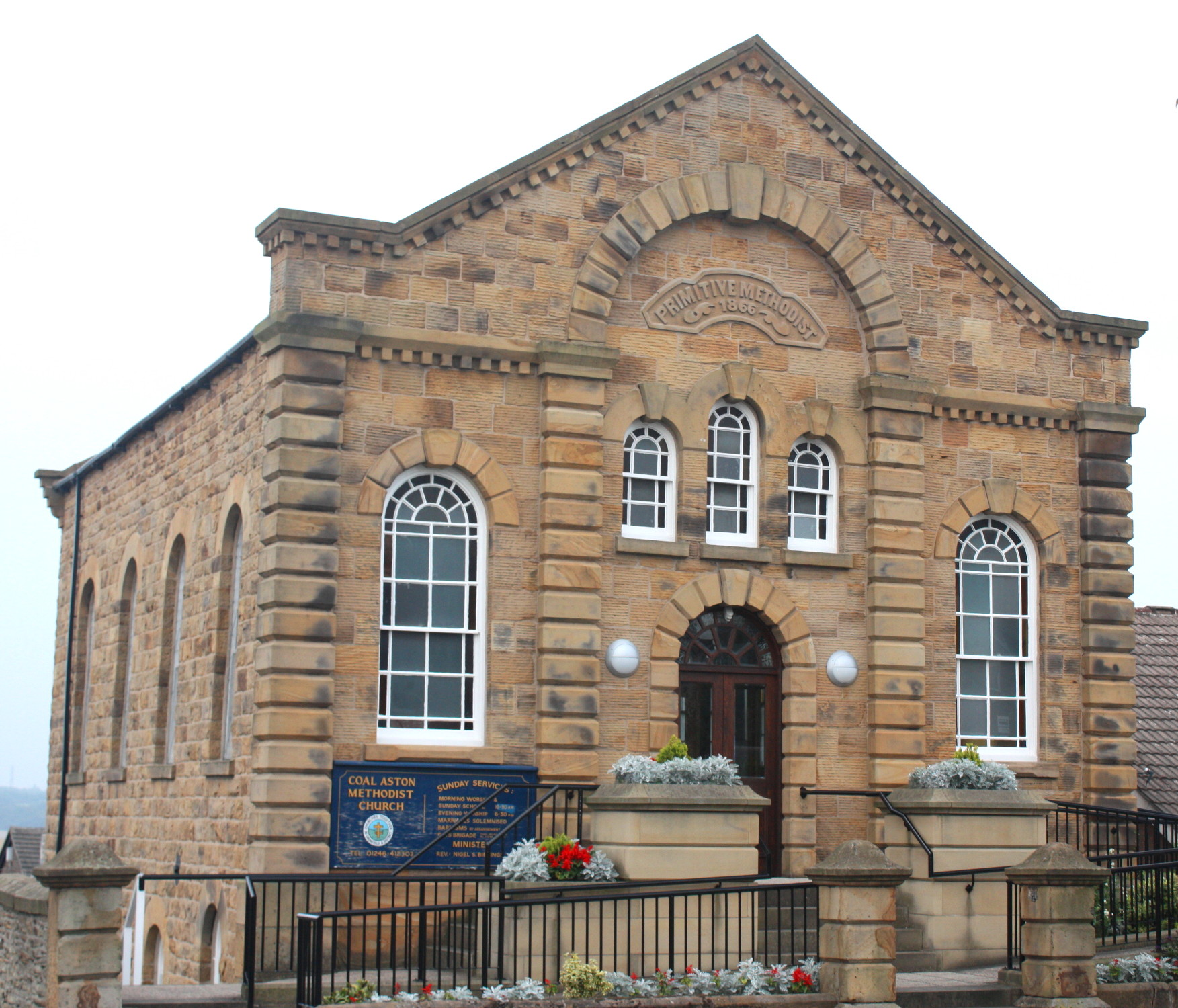 The Methodist Chapel in Coal Aston, Derbyshire, England.